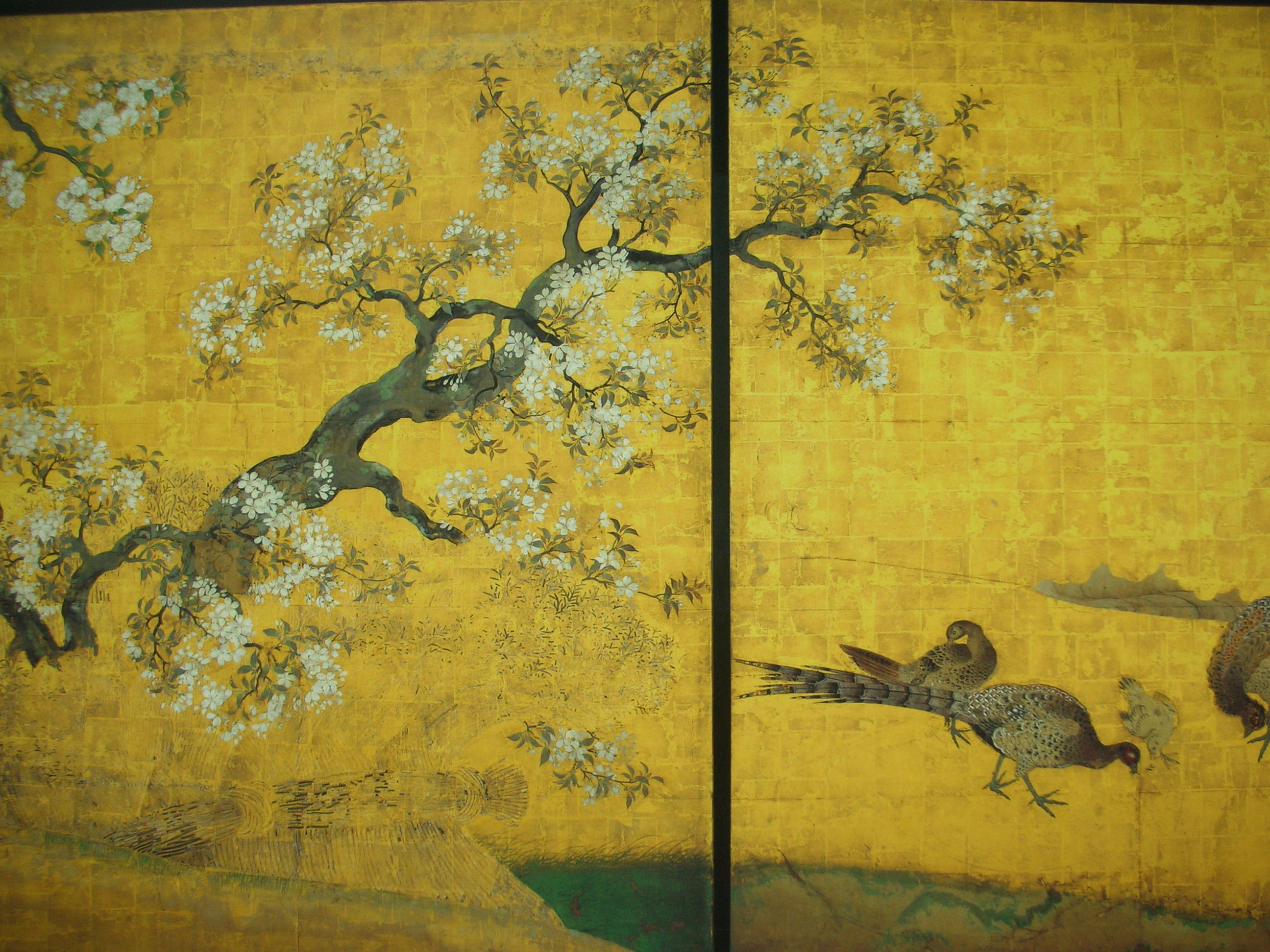 A Japanese painting from Nagoya Castle in Nagoya, Japan